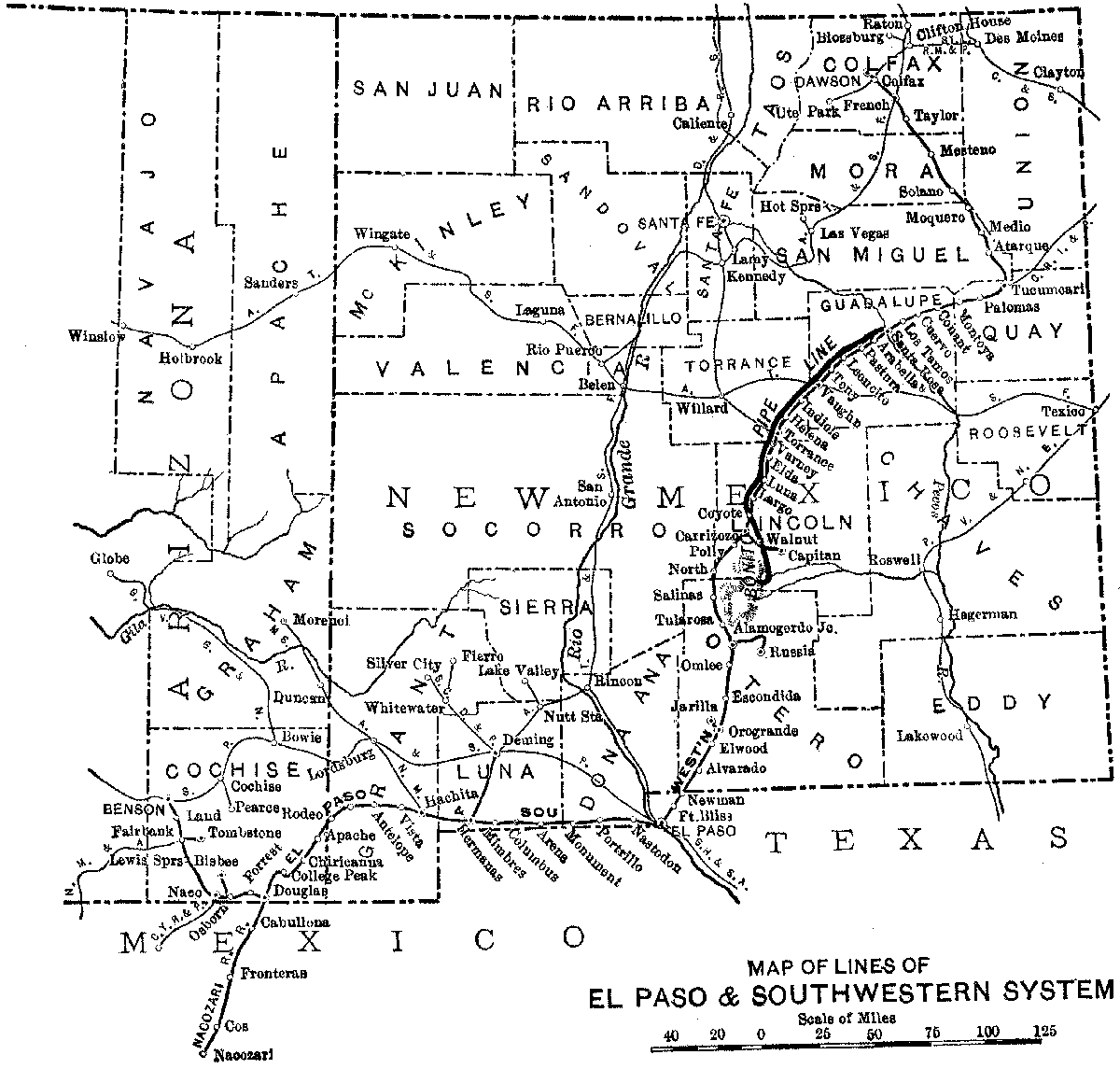 System map of the El Pase and Southwestern RR, circa 1910. From an ASCE paper, available on Gutenberg or Internet Archive.